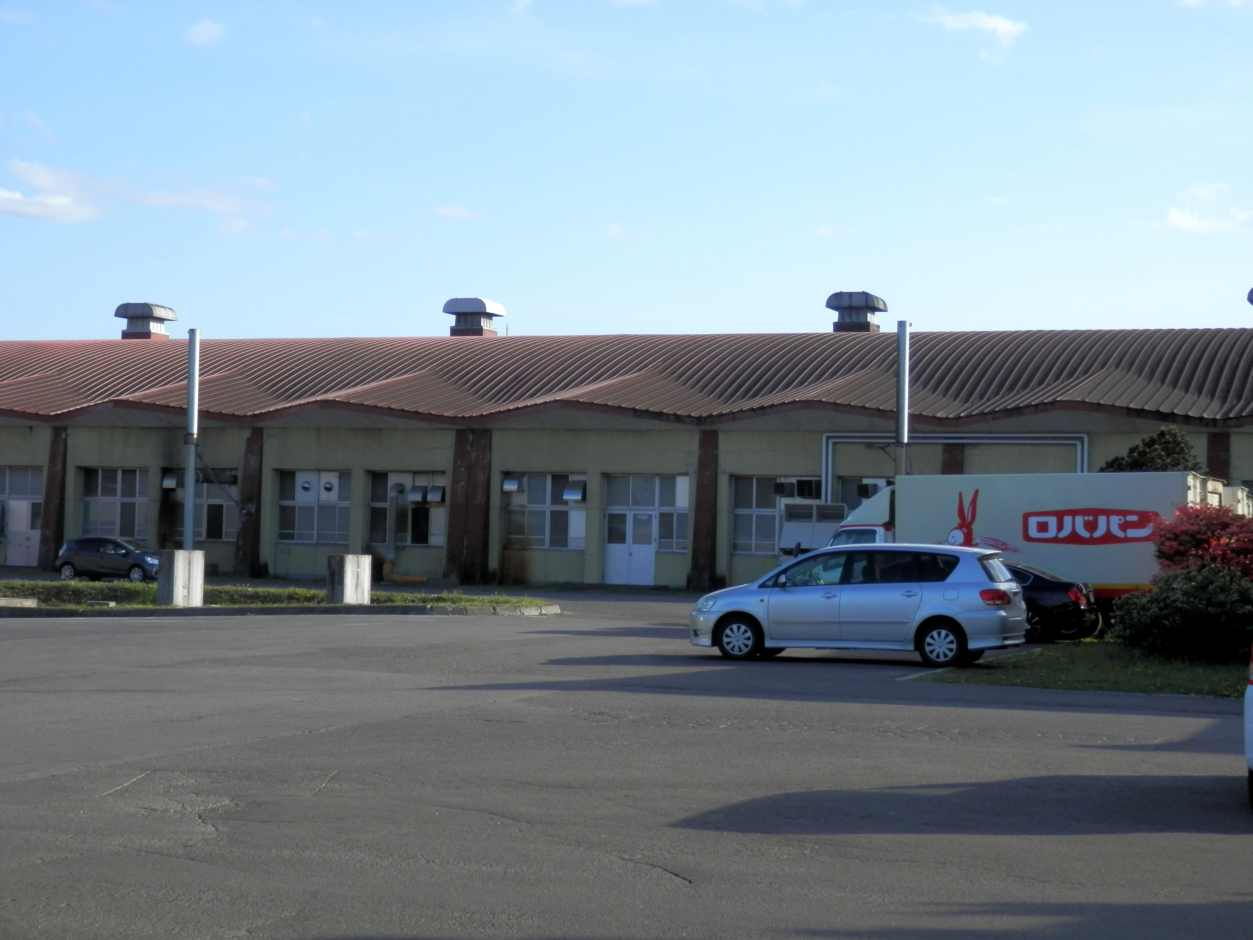 Hokkaido bread company Robapan's main factory in Eniwa, Hokkaido.